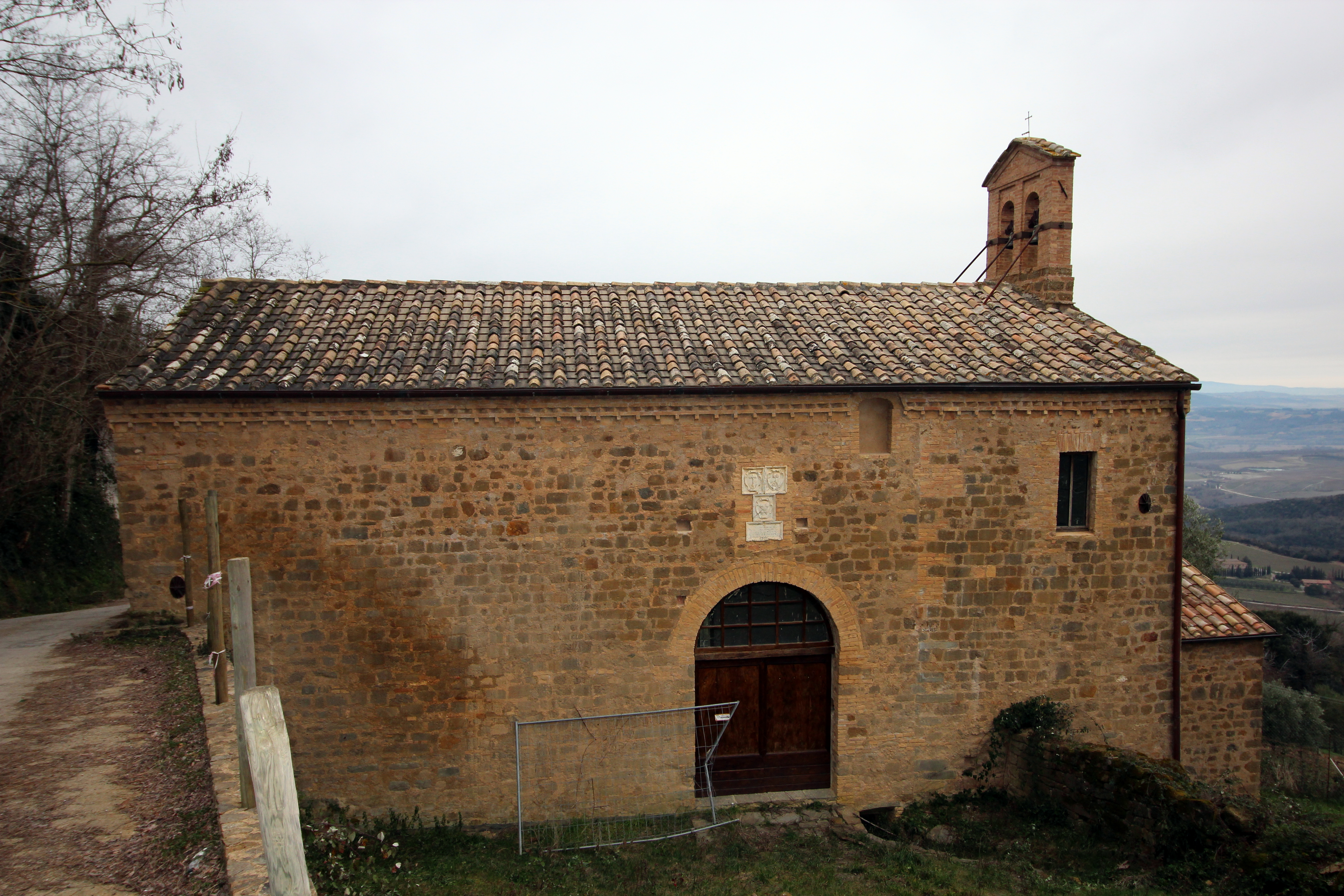 Church Santa Maria delle Grazie, outside Porta Burelli, Montalcino, Val d’Orcia, Province of Siena, Tuscany, Italy